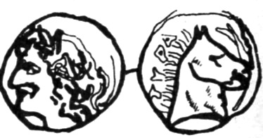 Dionysos and a tarpan on a greek coin from Tyras (3-th cen. b.C.), Black Sea, since I.C.Surucean, „Reports of Gubernial archaeologic commission of Taurida”, Odessa 1888, in [1].